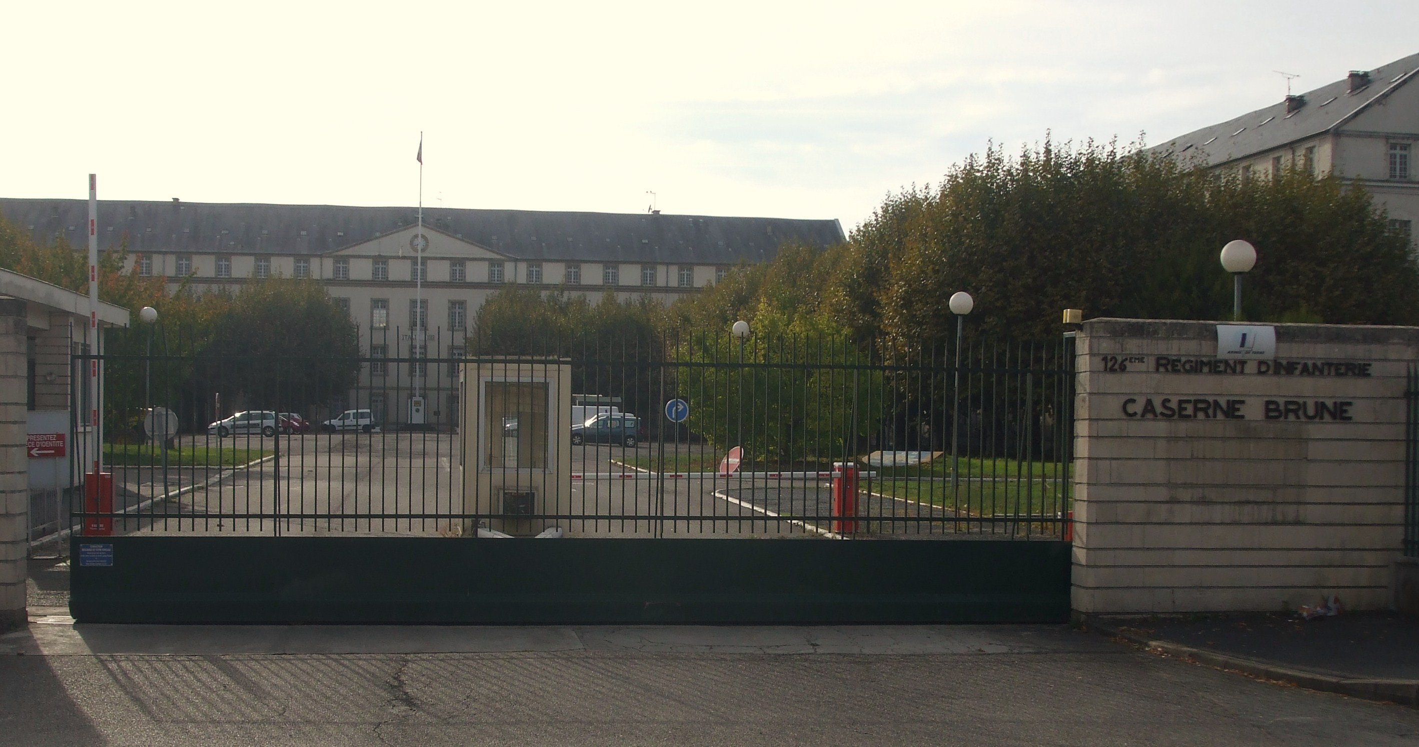 Brune barrack, Brive-la-Gaillarde, France, former barrack of 126th Infantry Regiment